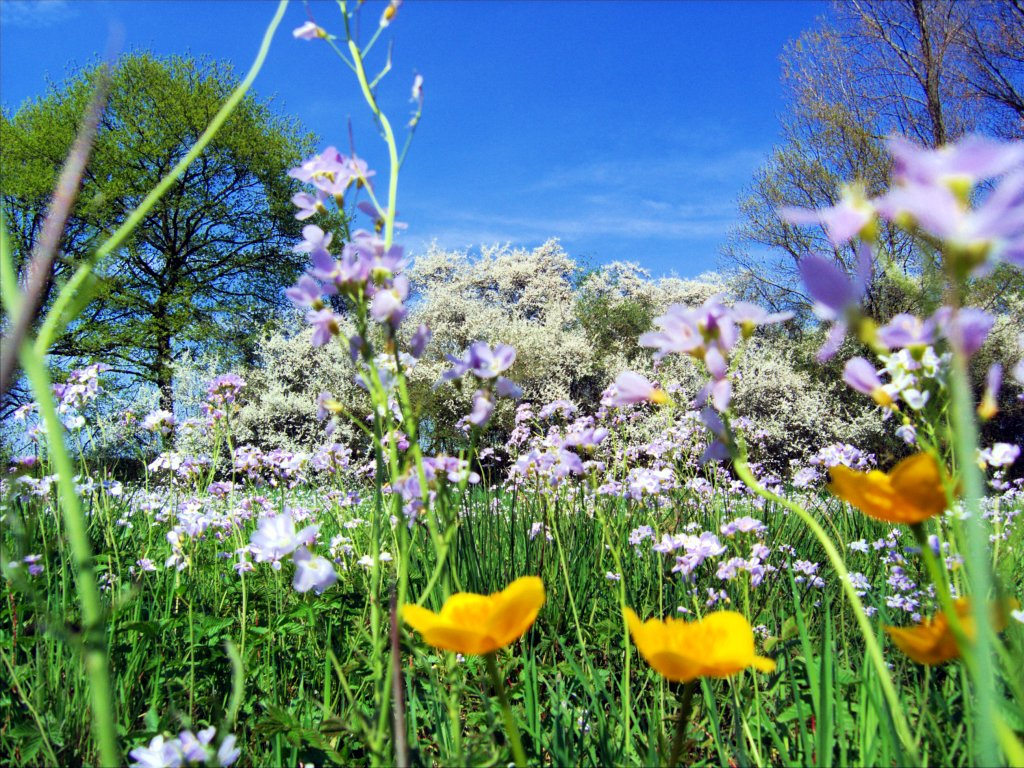 Meadow-springtime (with Caltha palustris, Cardamine pratensis and Prunus spinosa in the background). Location: Münster, North Rhine-Westphalia, Germany.